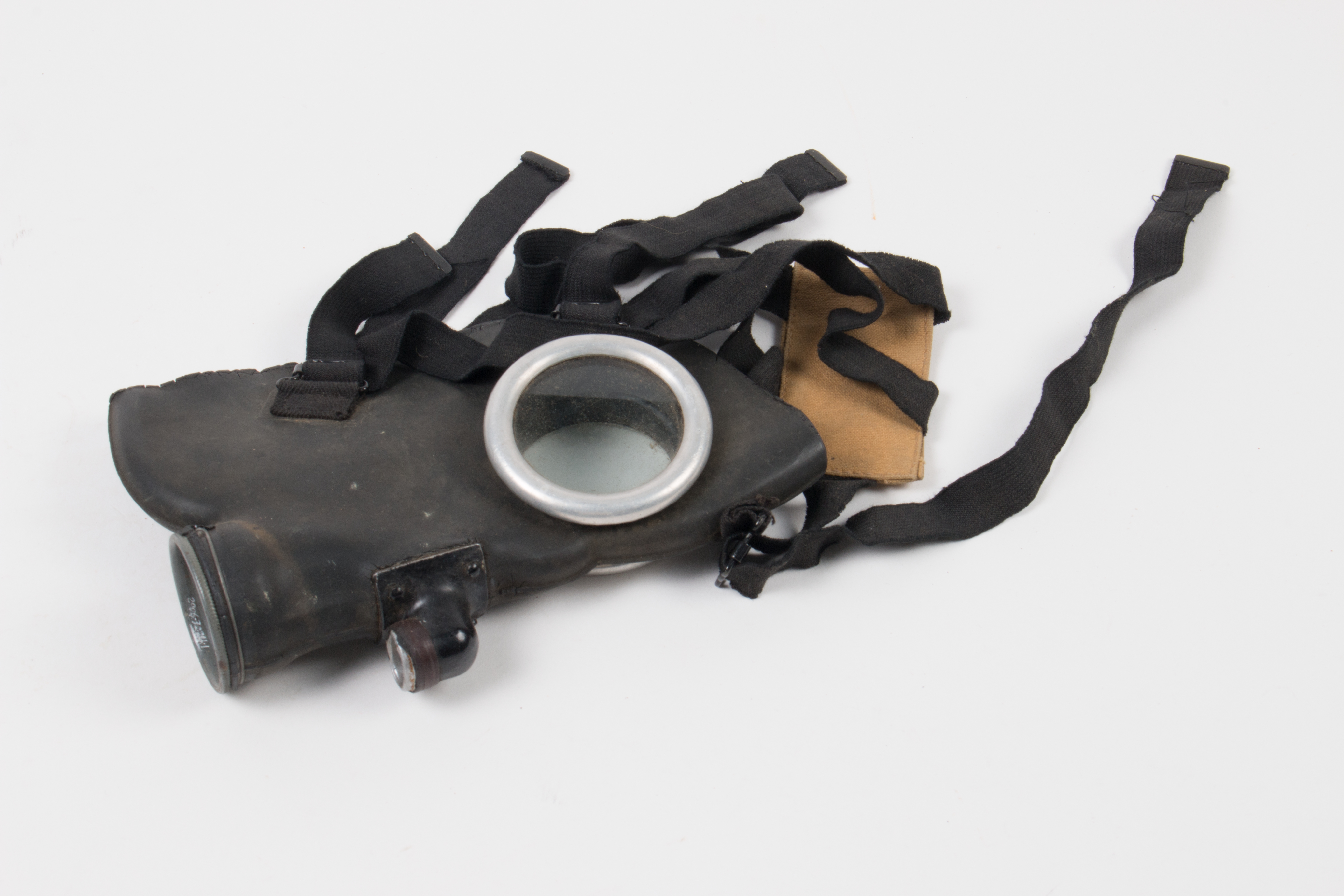 Gas mask, in original pouch with tube of anti-dimming mix, WW2 mask- black rubber, metal and (glass) with elastic straps satchel- canvas with metal fastener anti-dimming mix- in tube with printed paper label